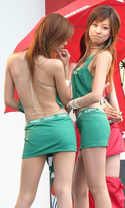 Promotional models for the JOMO racing team at a Japanese auto racing.